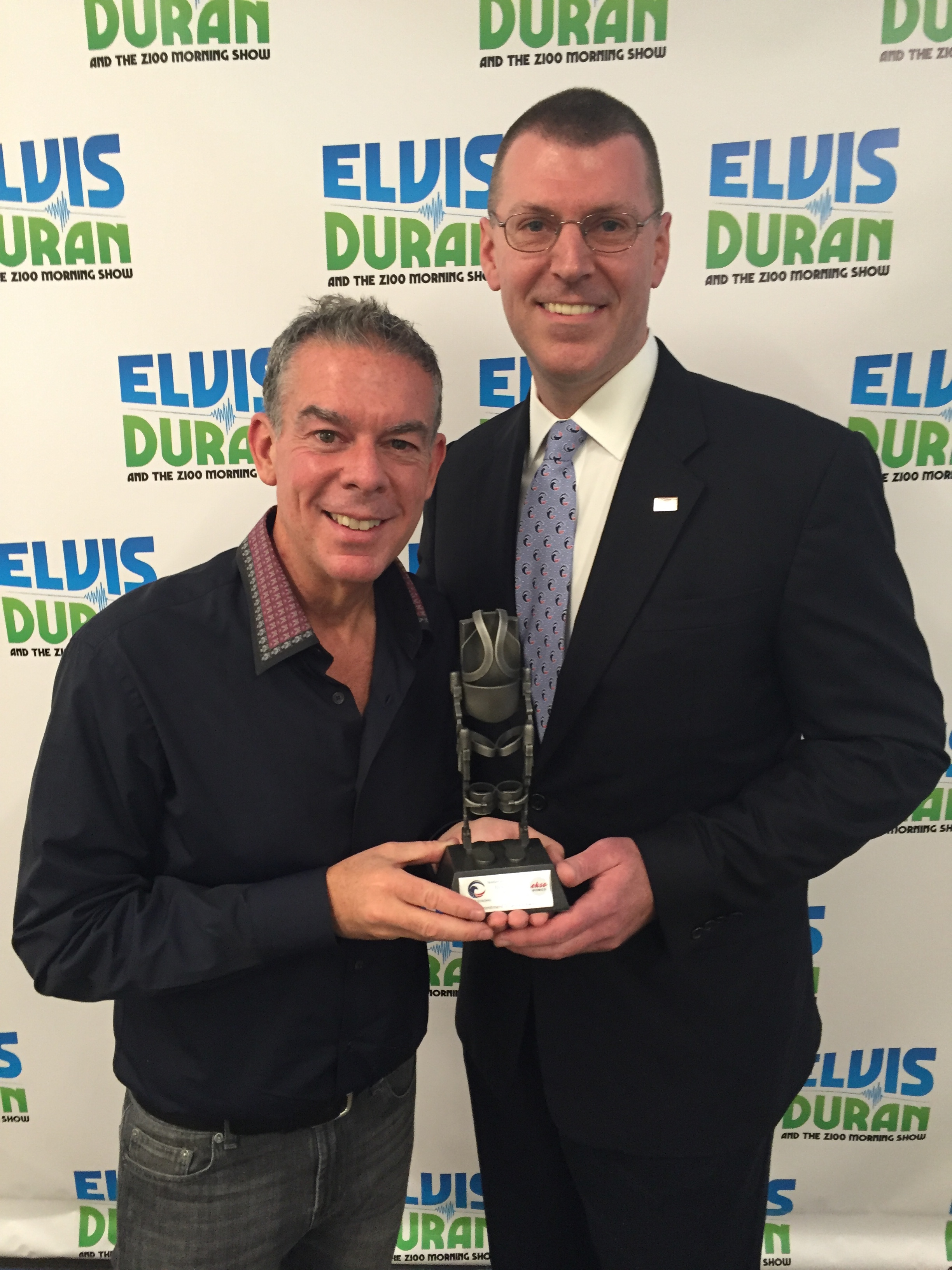 Chris Meek, Co-founder of SoldierStrong, with the 2015 annual SoldierStrong Gala award recipient, Elvis Duran